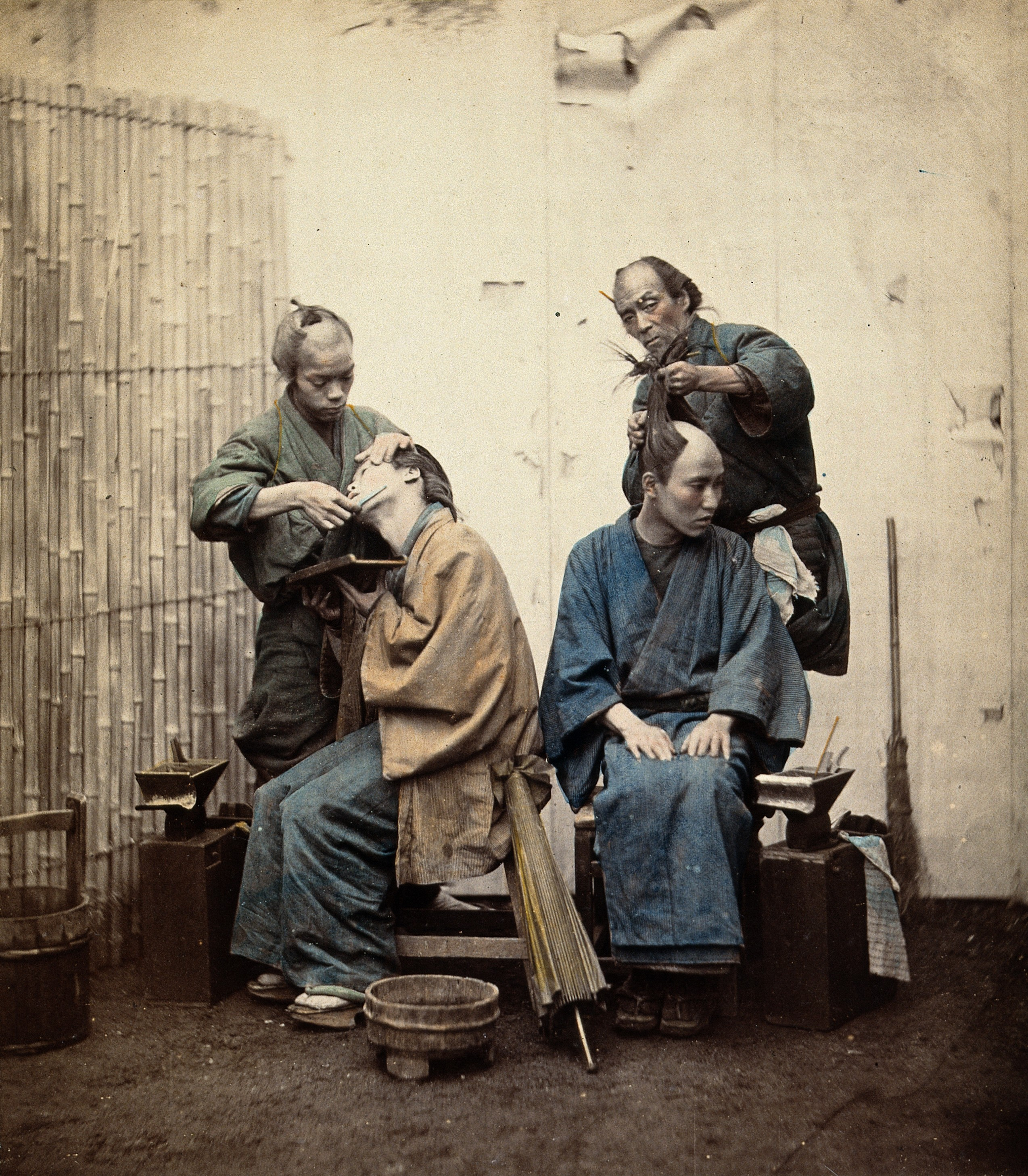 "Barbers. All Japanese who are not priests or physicians shave their head, from the forehead to the nape of the neck, the hair left about the neck and temples, being well oiled, turned up in a cue and tied with paper point." Description, verso: "Most Japanese are shaved daily, and in addition to the head, the face and even the nose is shaved, the ears are bored out, and the eyelids often turned back and scraped: to this cause is principally owing the frequent disease of the eye, as much irritation is occaisioned [sic] by this operation. Latterly the Japanese have fallen into the foreign habit of allowing the hair on the hair on the head [sic] to grow and have abandoned in some instances the shaving of the forehead. Beards however are not worn except by doctors, and sometimes by priests, with whom it appears optional."